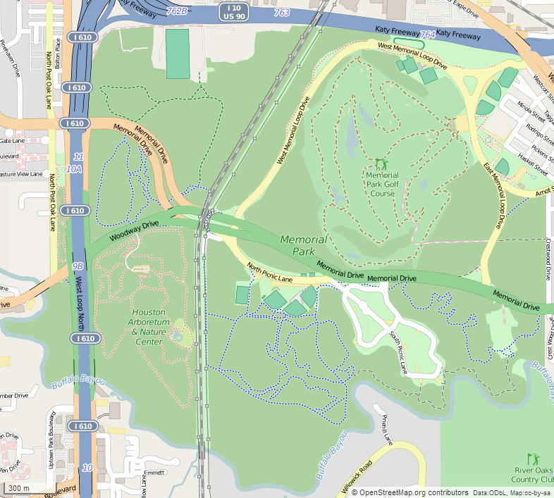 This map of Houston Memorial Park was created from OpenStreetMap project data, collected by the community. The image should remain clear of any additional edits. To annotate the map for an article, use the Infobox or Location Map template and reference the map using map module Houston Memorial Park. This map may be incomplete, and may contain errors. Submit corrections to the below source link. Do not rely solely on the map for navigation. Steven Driskell Image for Map Module : Houston Memorial Park Latitude north = 29.77984 Latitude south = 29.75350 Longitude west = -95.46076 Longitude east = -95.42703 Map symbology